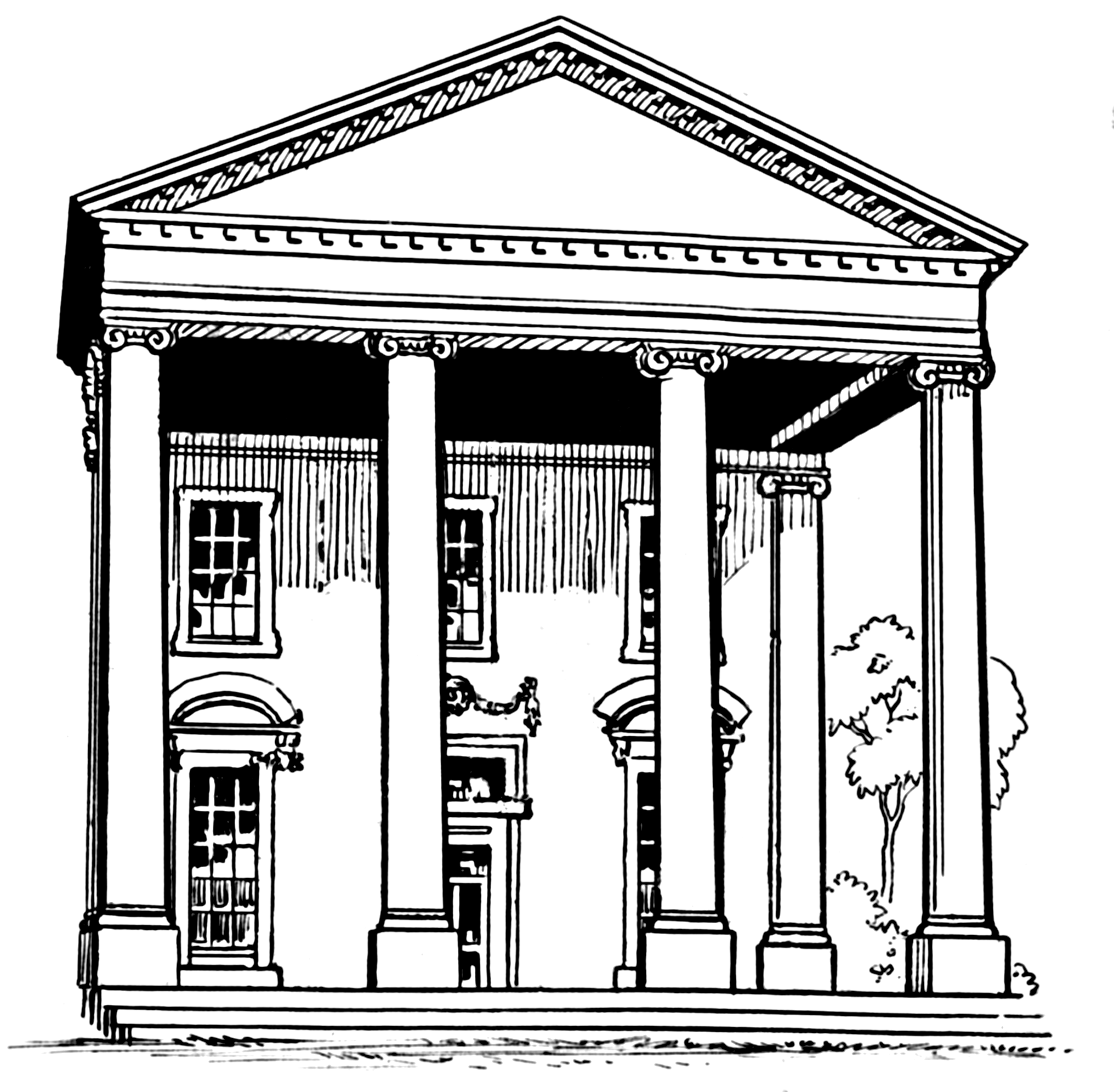 Line art drawing of portico.